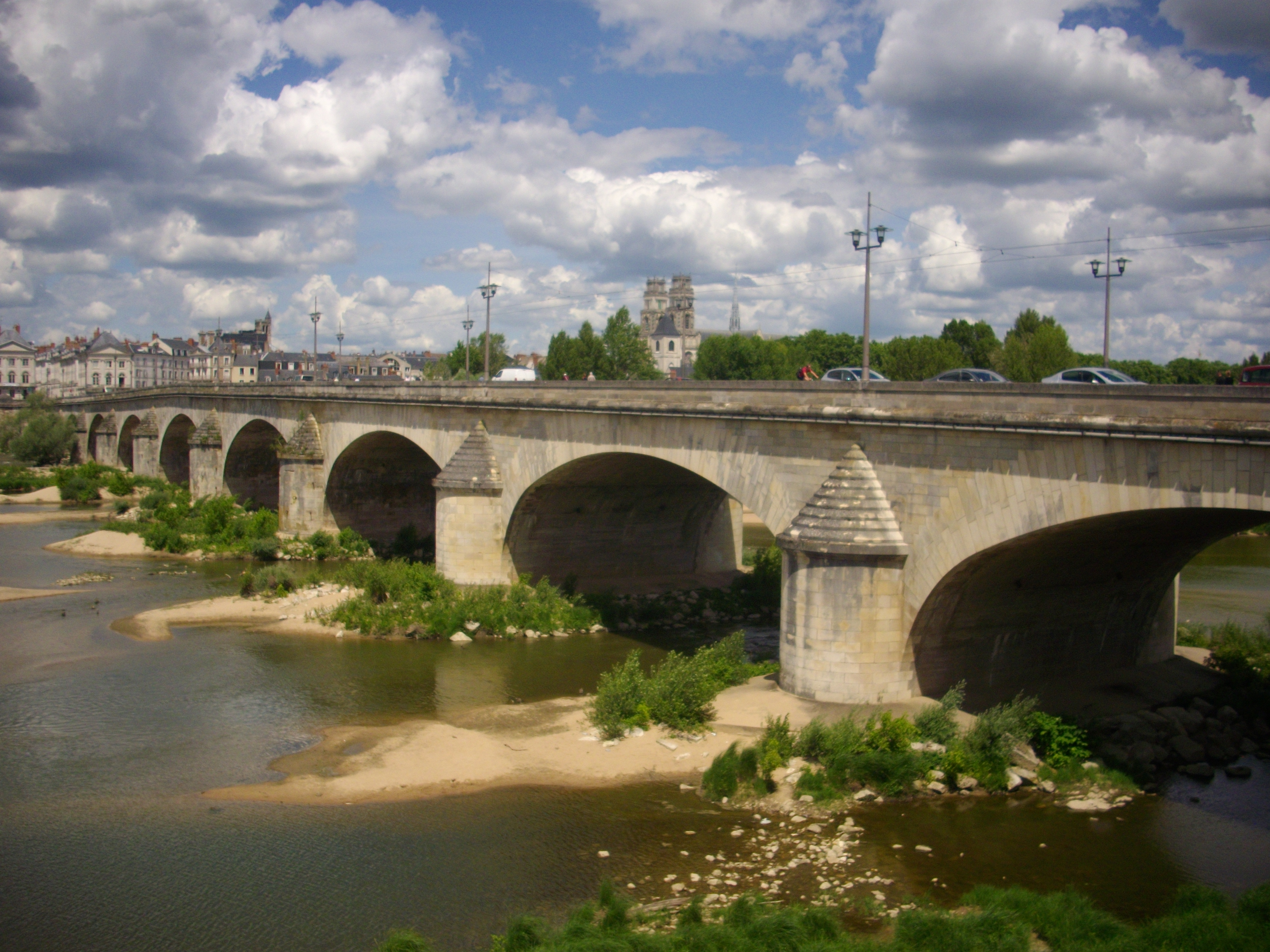 George V bridge, in Orléans (Loiret, France) .